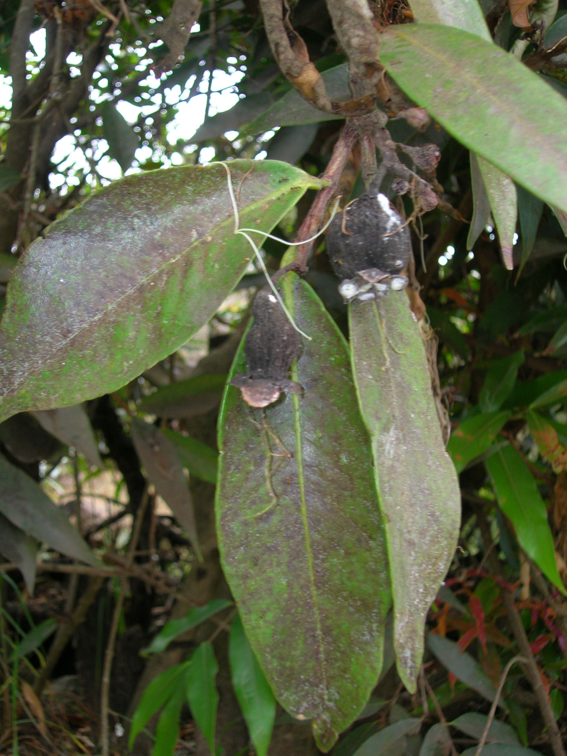 Syzygium jambos (with Puccinia psidii damage). Location: Maui, Kula